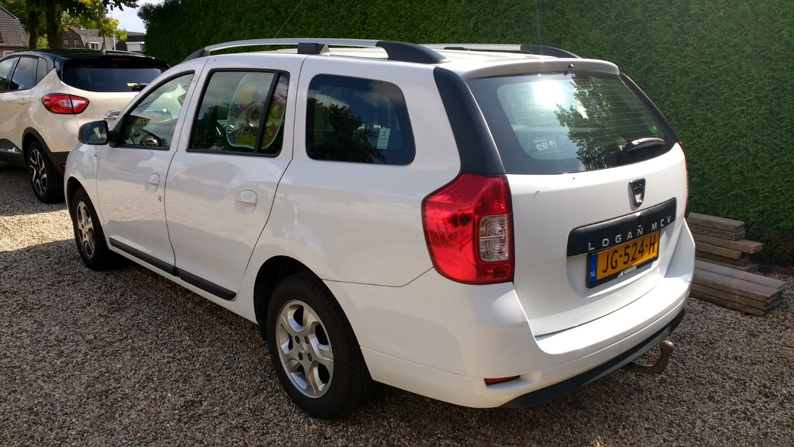 CAR pic1